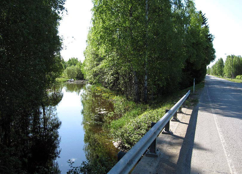 Haapajoki bridge, Joensuu, Finland